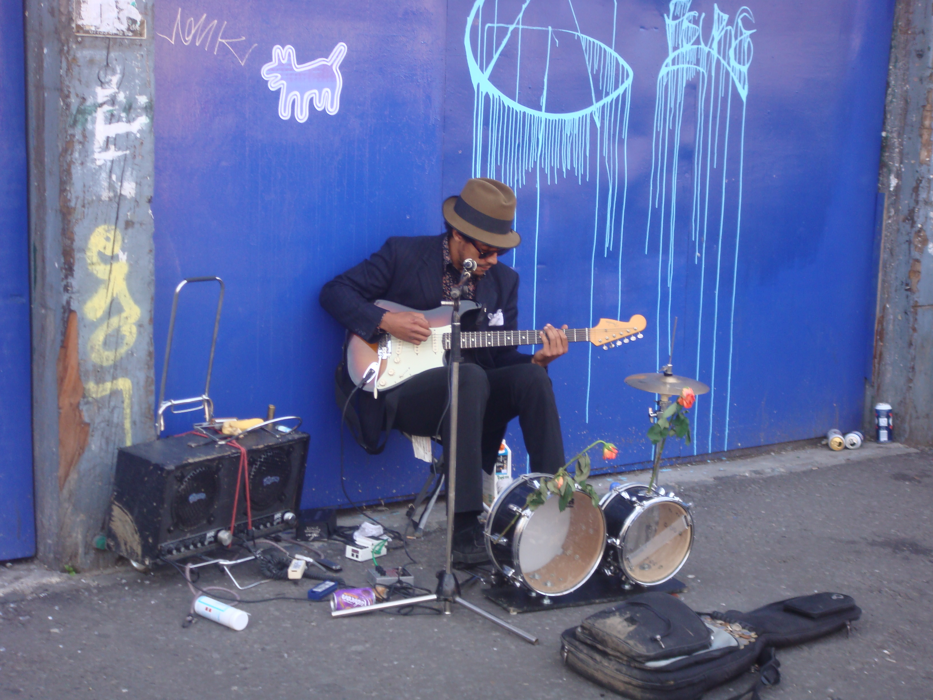 A musician performs near Liverpool Street, London.